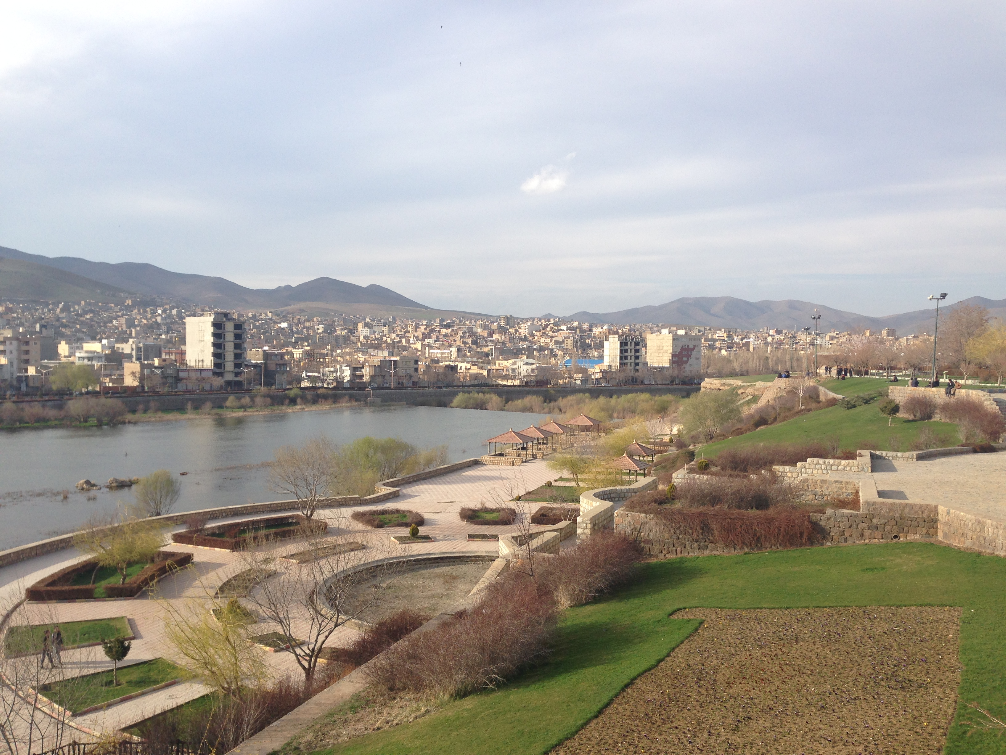 Saqqez-Kurdistan 2014 - Spring